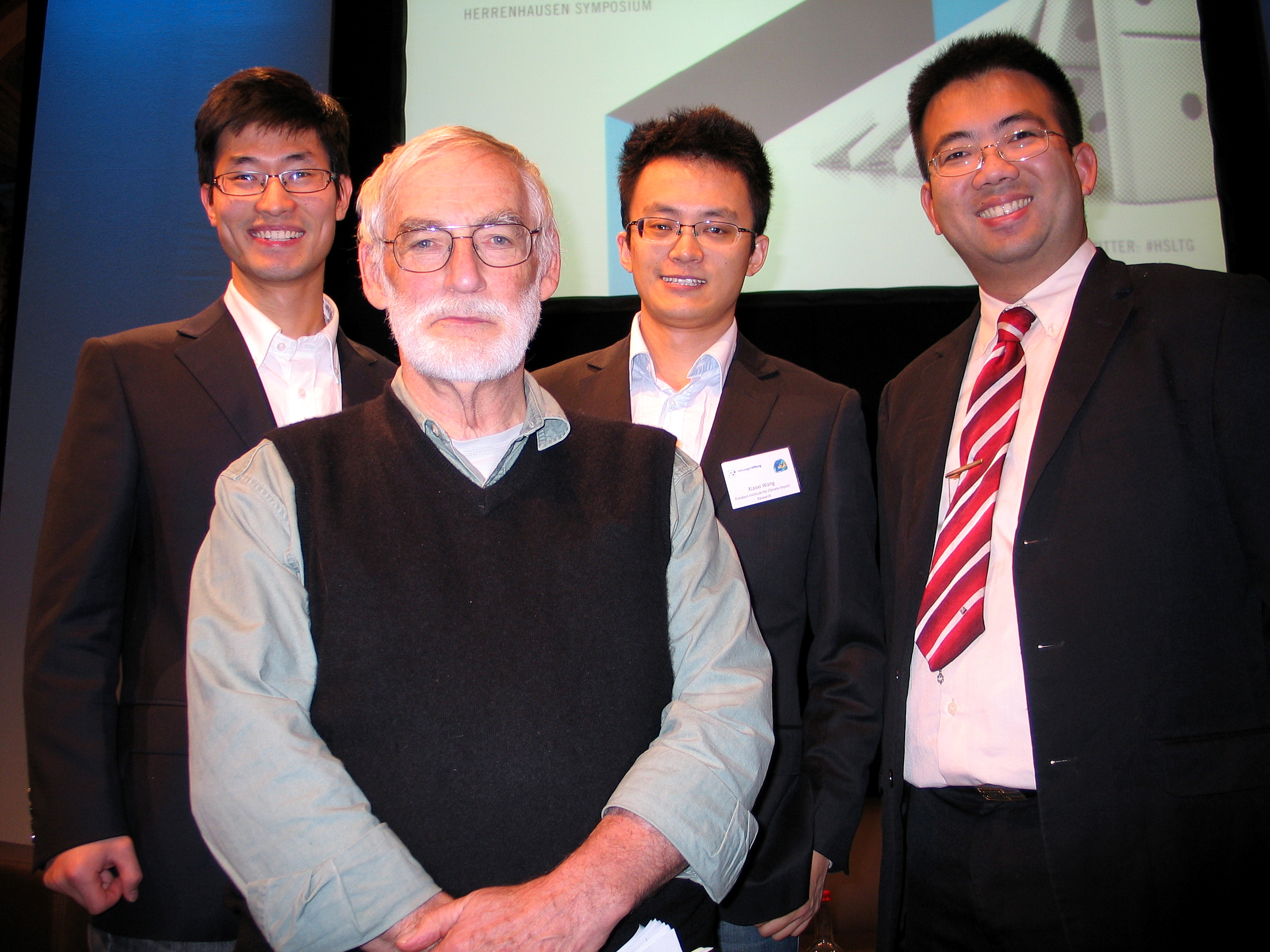 Impressions from the second day of the Herrenhausen Symposium Already Beyond? - 40 Years Limits to Growth, organized by VolkswagenStiftung in the Gallery building of Herrenhausen Gardens in Hanover ... From left: Liang Shi, Dennis Meadows, Xiaoxi Wang, and Tonni Kurniawan.